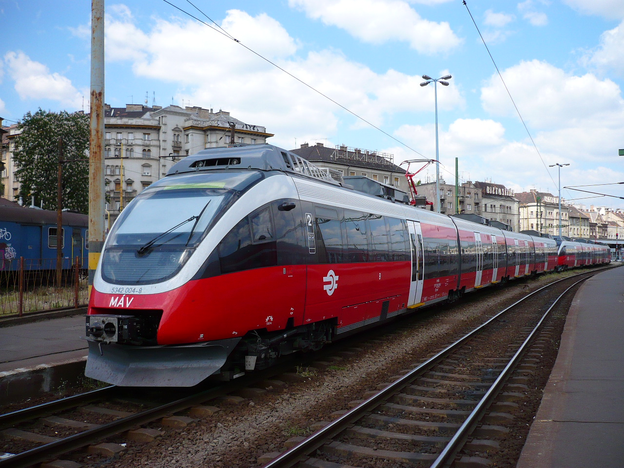 MÁV 5342 004-8 at Budapest Nyugati pu.